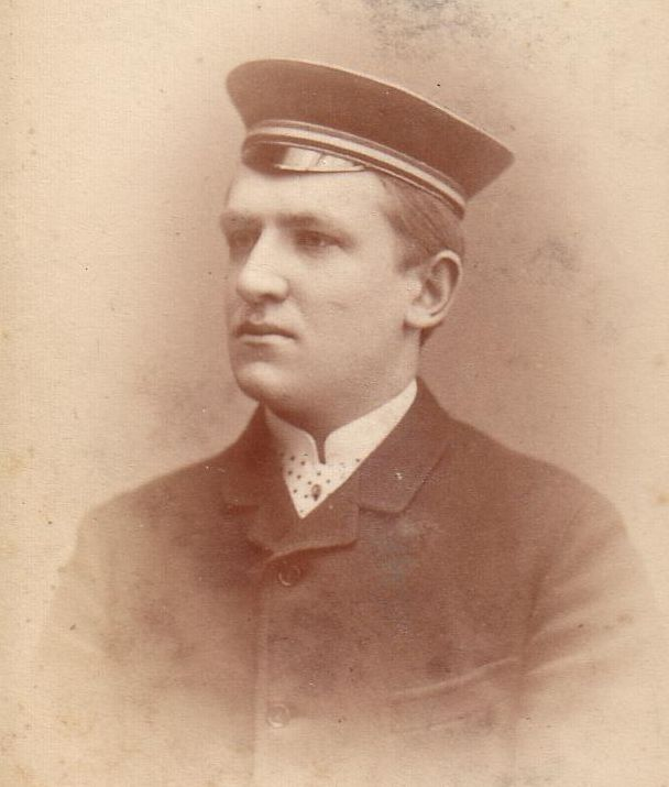 Photographic portrait of Heinrich Erythropel